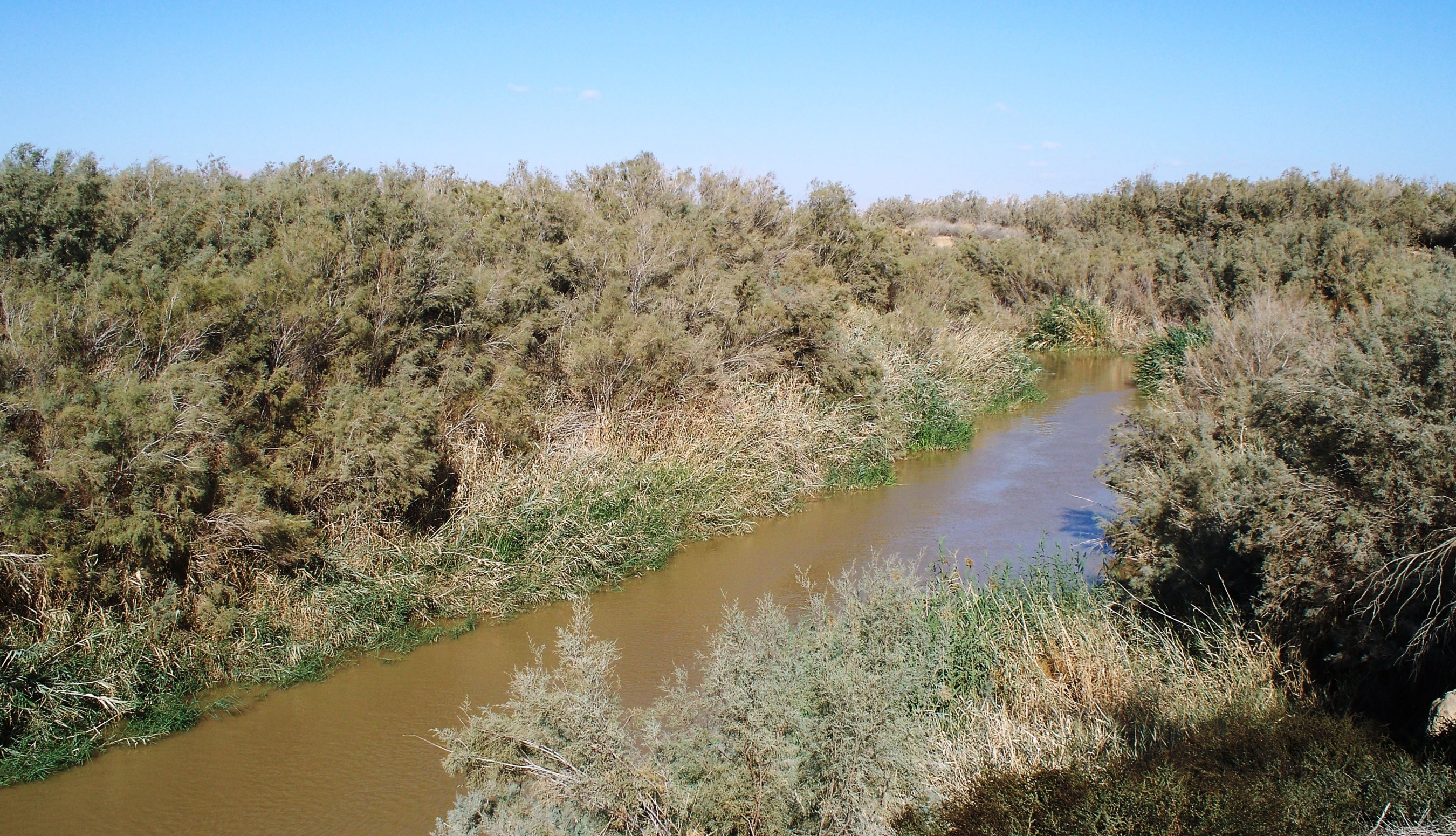 The Jordan River near the Dead Sea.